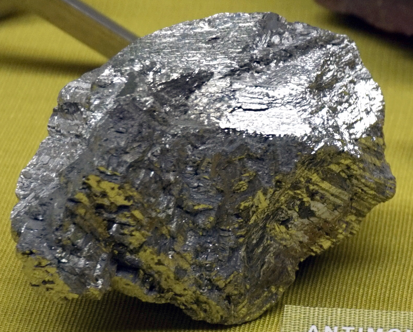 Antimony stone in Natural History Museum, Geneve.This photograph was taken with a Sony ILCE-5000